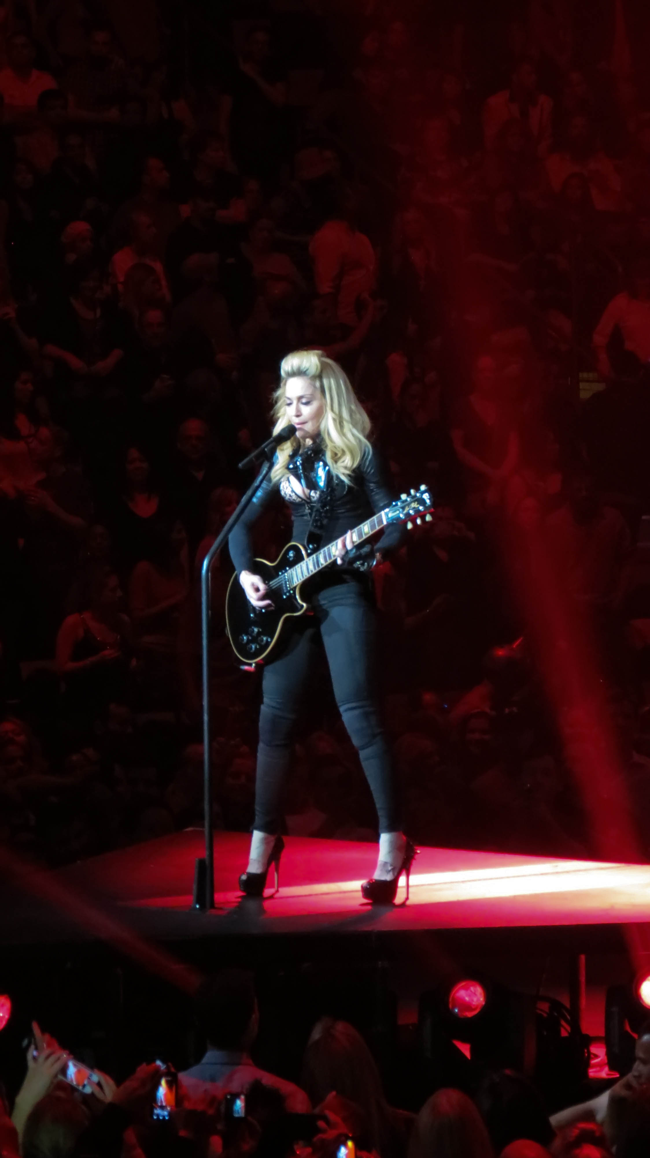 Madonna concert in Seattle